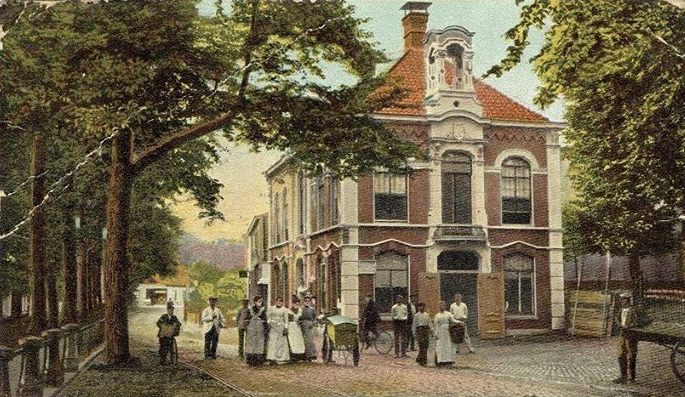 Former Raadhuis in Hillegom, Holland. Demolished 1961